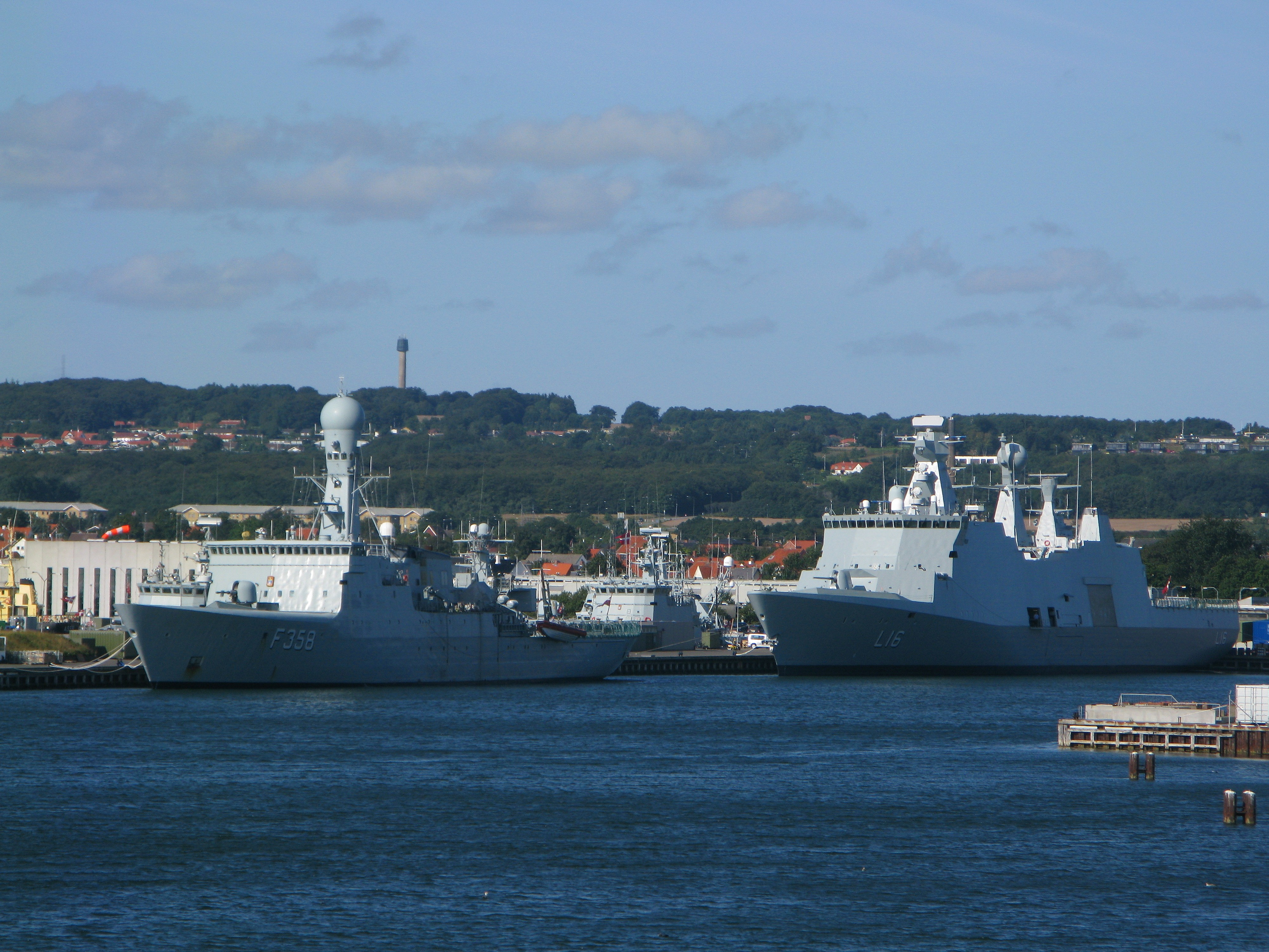 naval harbour in Frederikshavn, Northern Denmark